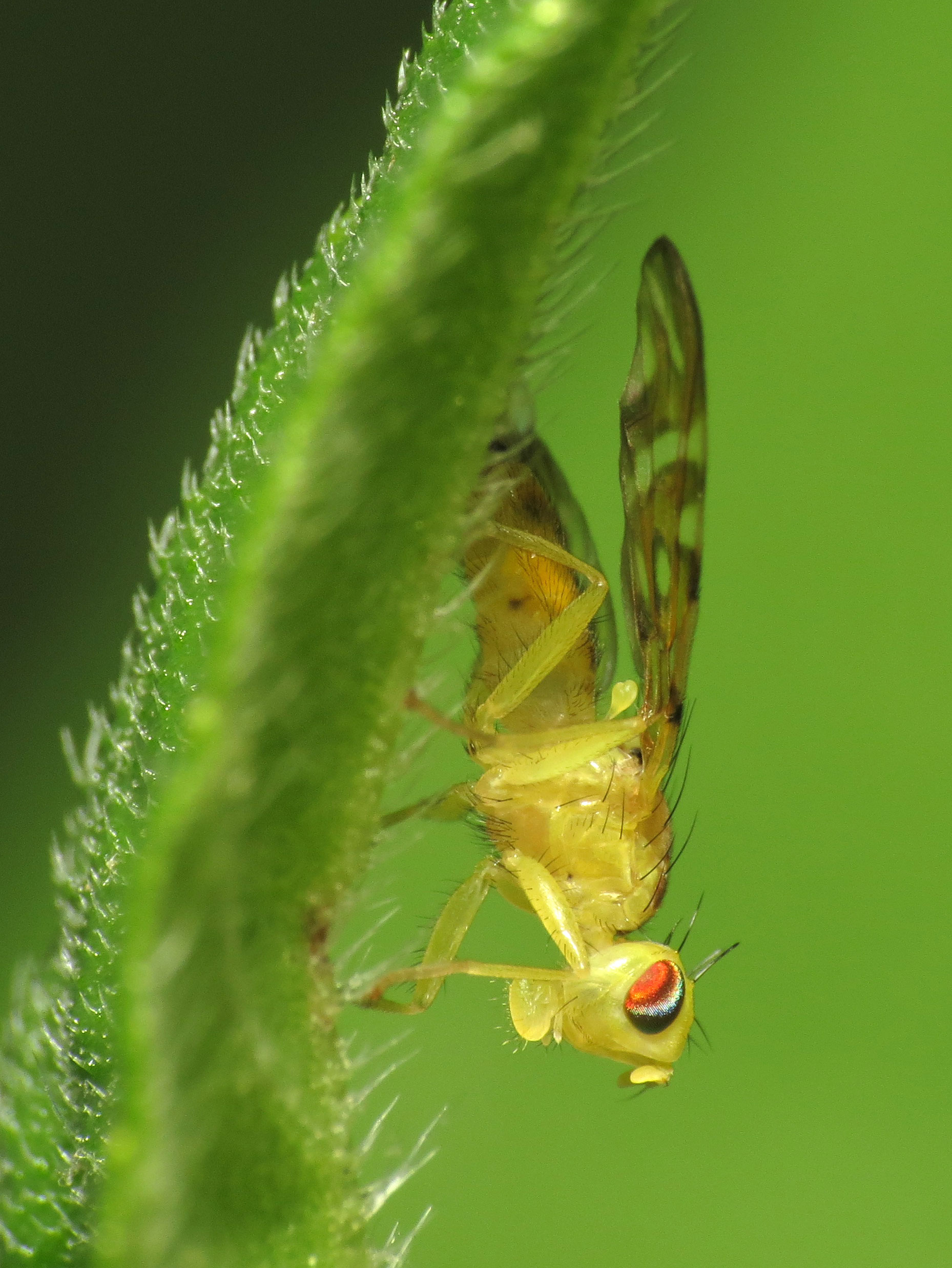 Strauzia longipennis. Rock Creek Park, Washington, DC, USA. 17 May 2014.